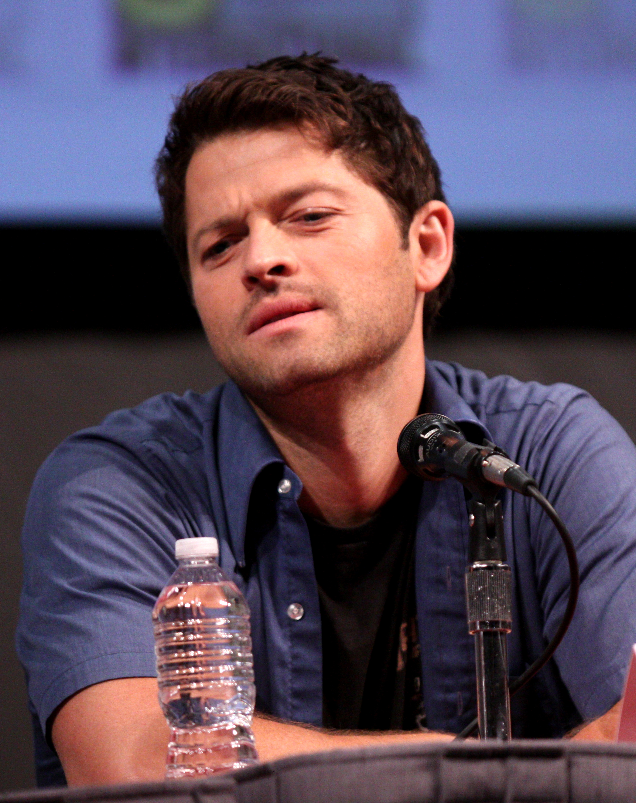 Misha Collins at the 2011 Comic Con in San Diego